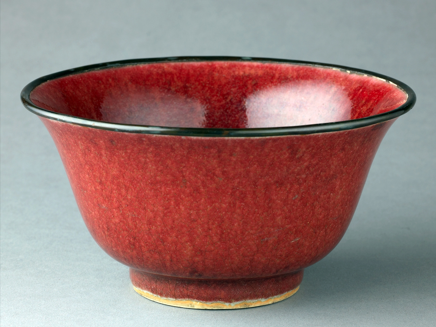 Chinese; Bowl; Ceramics